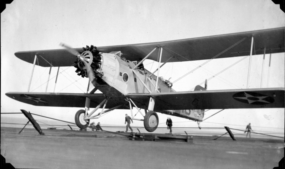 PictionID:38275243 - Catalog:AL-135B 129 Martin T4M-1 VT-2B 2-T-16 USS Saratoga c31-32 - Filename:AL-135B 129 Martin T4M-1 VT-2B 2-T-16 USS Saratoga c31-32.tif - This image is from a photo album donated to the Museum by JL Highfill which includes images taken in the Pacific during the Second World War-----------PLEASE TAG this image with any information you know about it, so that we can permanently store this data with the original image file in our Digital Asset Management System.-----------------SOURCE INSTITUTION: San Diego Air and Space Museum Archive